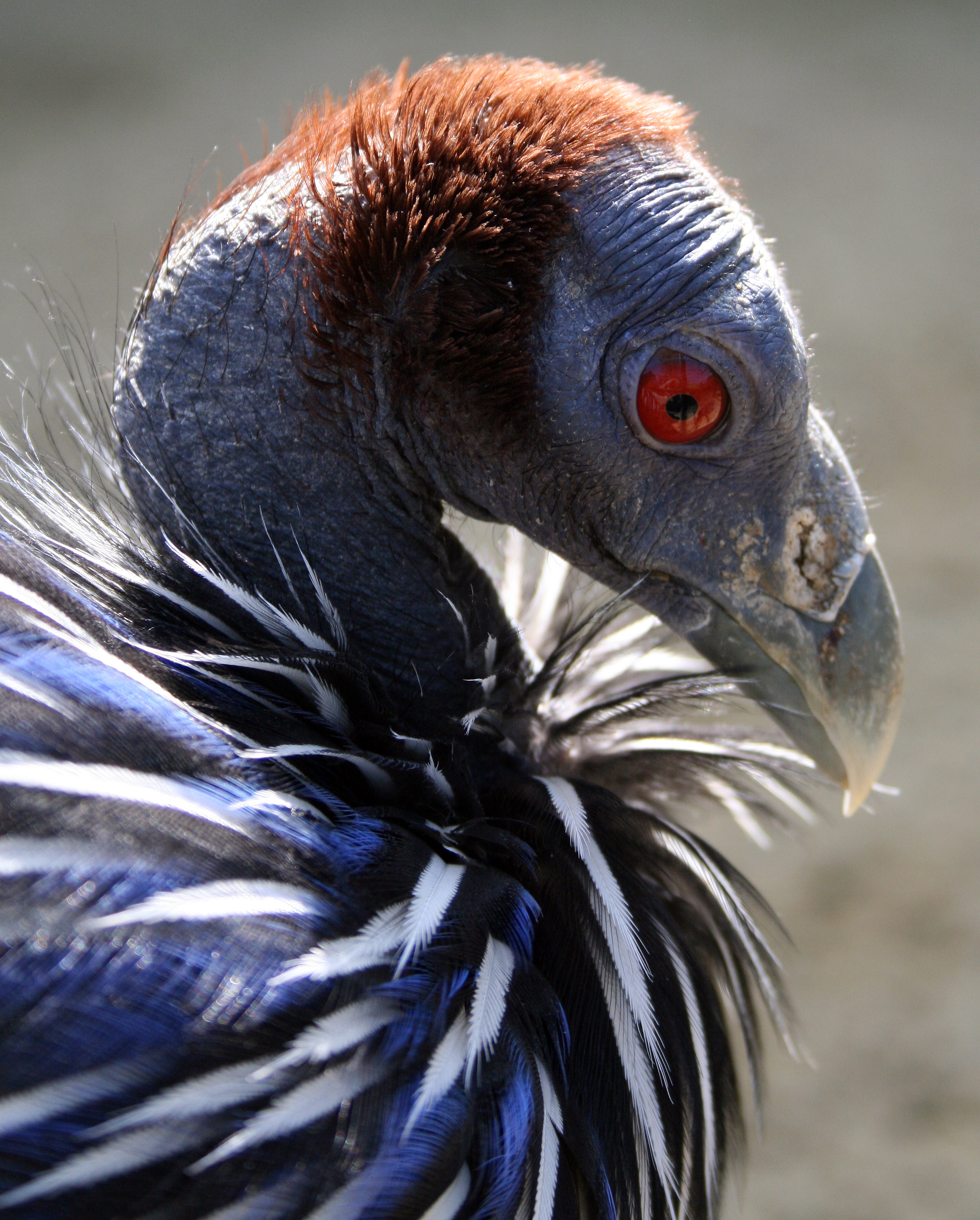 Vulturine Guineafowl at the Tiergarten Schönbrunn in Vienna